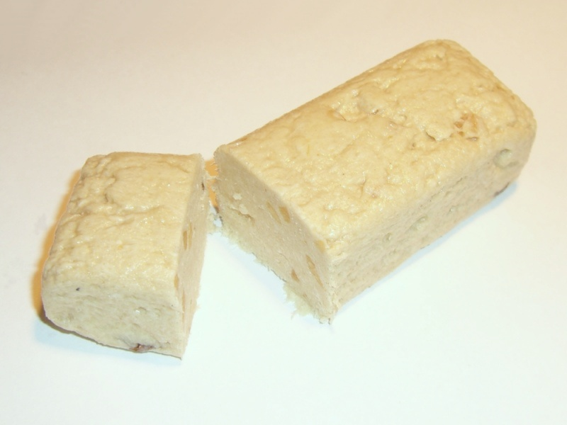 Halva, with peanuts